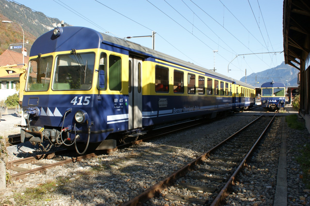 Berner Oberland-Bahn driving trailer ABt 413 with coach B 253 on track 1 and ABt 415 with B 254 on track 2. These "modules" are added to the normal consists at traffic peaks.